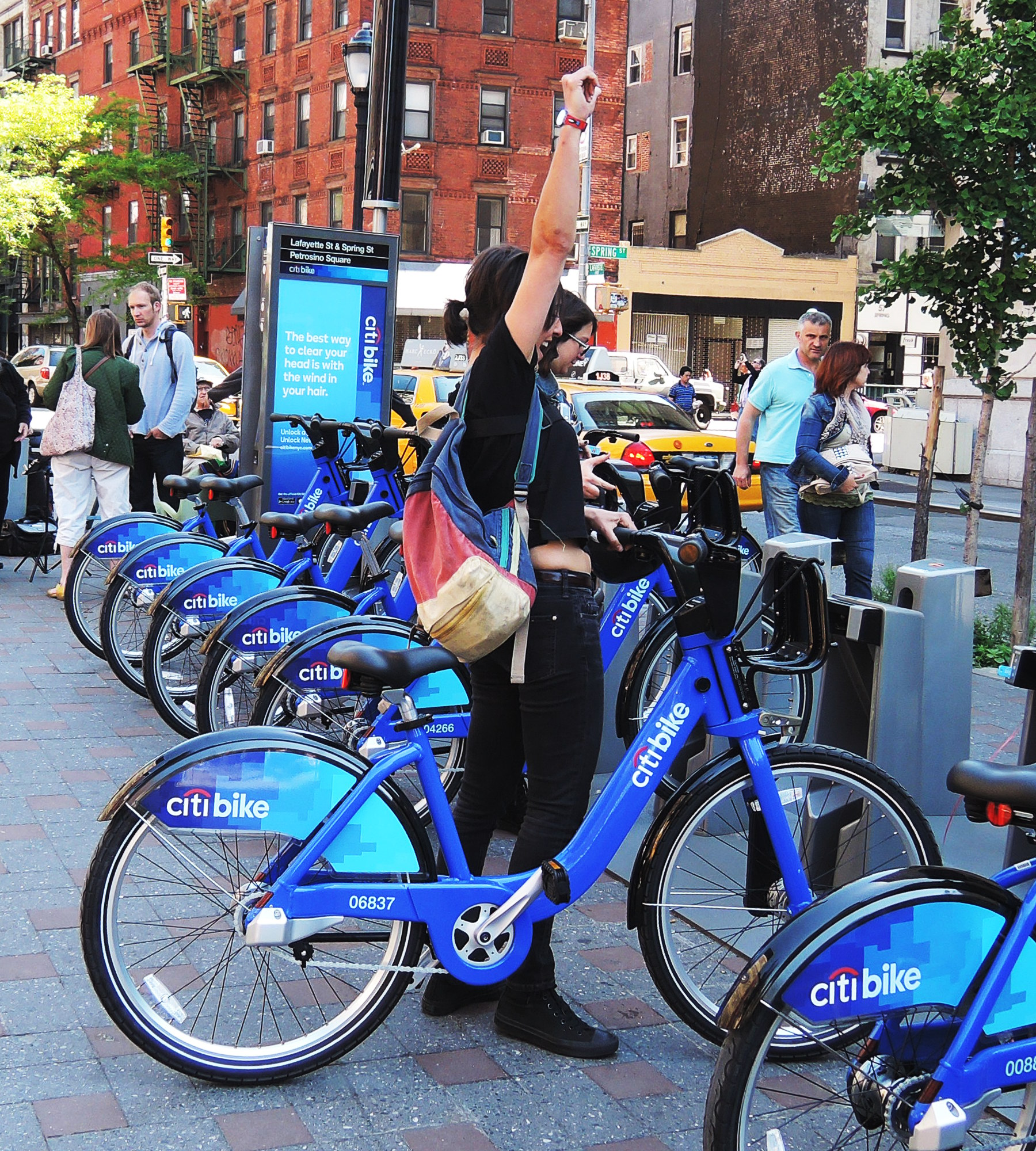 Looking north as she pulls her bike out of the dock, late on the sunny morning of the system's opening.